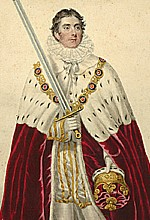 Henry Pelham-Clinton, 4th Duke of Newcastle-under-Lyne (1785-1851)